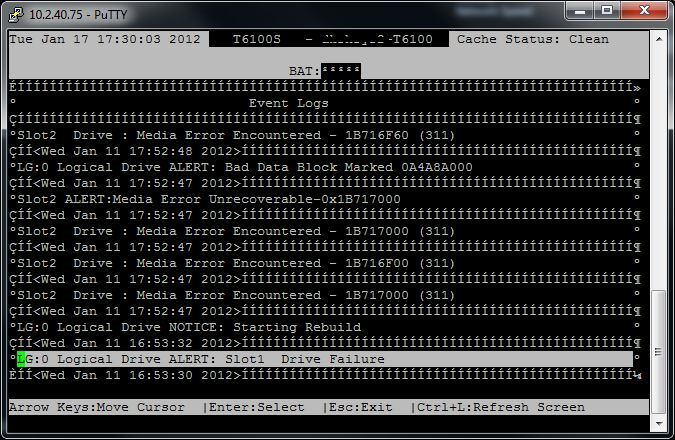 Error log showing the failure of a disk drive of a RAID 5 with hot spare. Due to the added load a second drive showed a lot of read errors. Luckily the rebuild could be completed before the drive in Slot 2 failed, too.